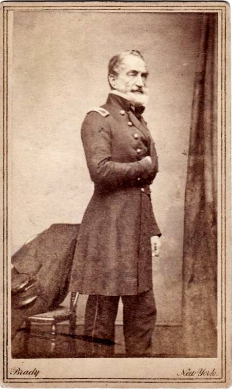 Clement Alexander Finley CDV (1797-1879)